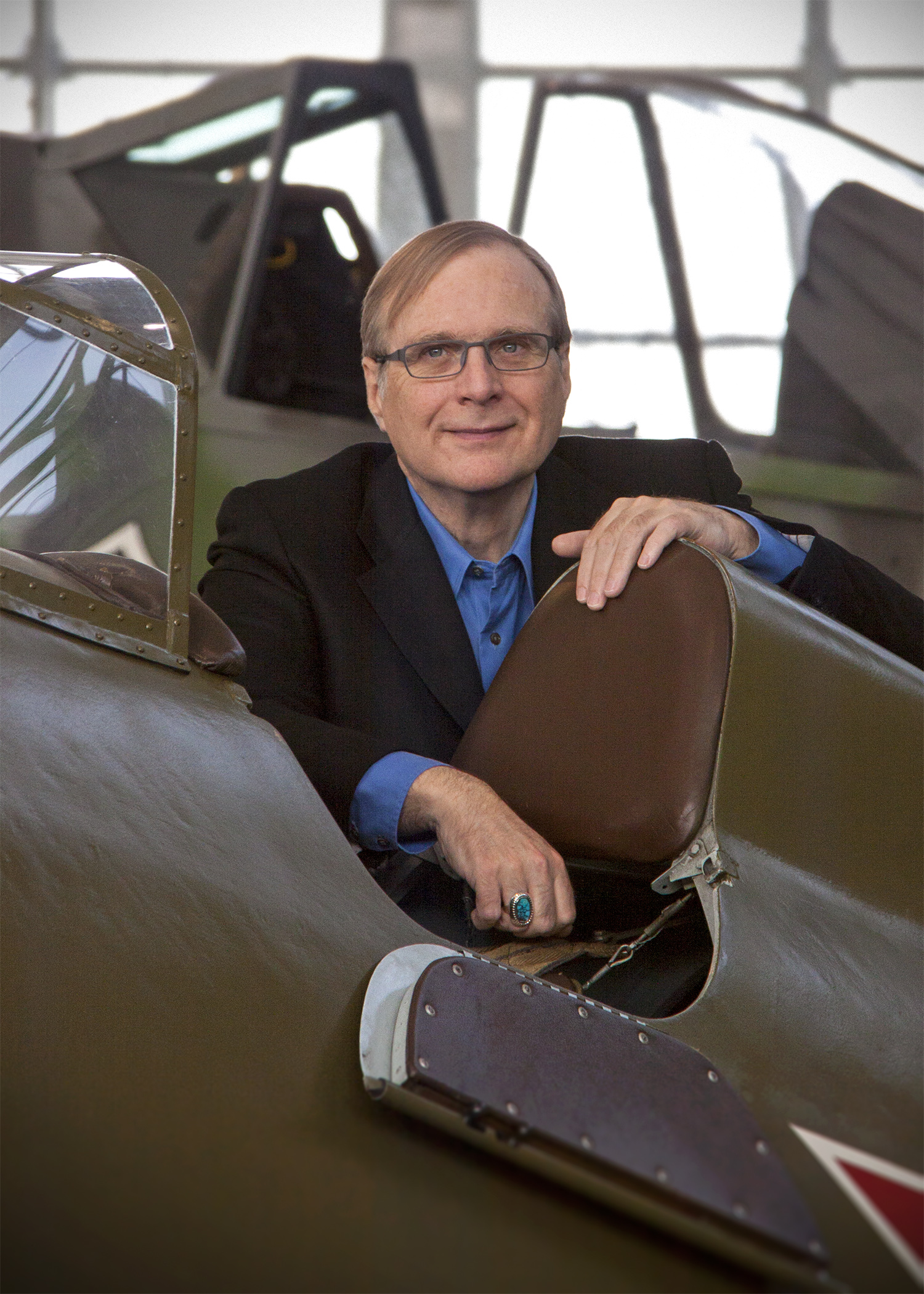 Paul G. Allen at Flying Heritage Collection, located at Paine Field, Everett, Washington, United States.